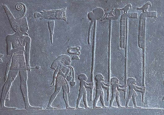 The 4 standards shown, are sometimes shown with attached, flowing streamers of cloth. The totems, are either 'God' or 'Nome' totems. (Horus, Seth-animal, etc. (the Placenta, that gave birth to the Pharaoh)).